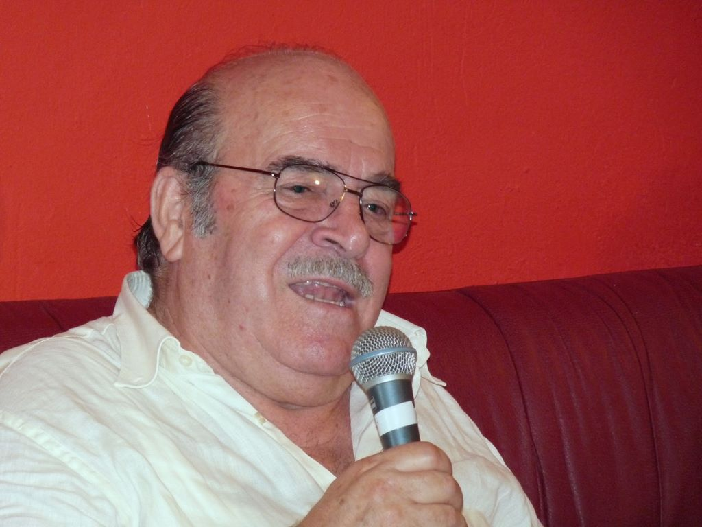 Miroslav Košuta in 2011